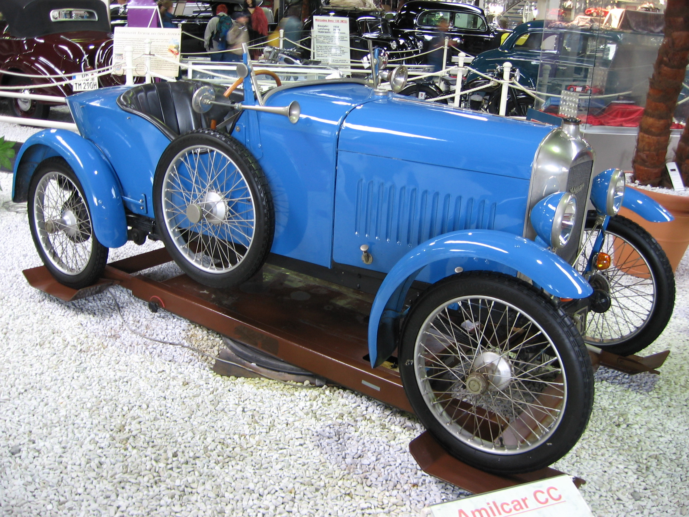 An Amilcar CC racecar from 1921 at the Auto- und Technikmuseum Sinsheim / Germany. Picture taken in may 2006 by Christian Kath (me).